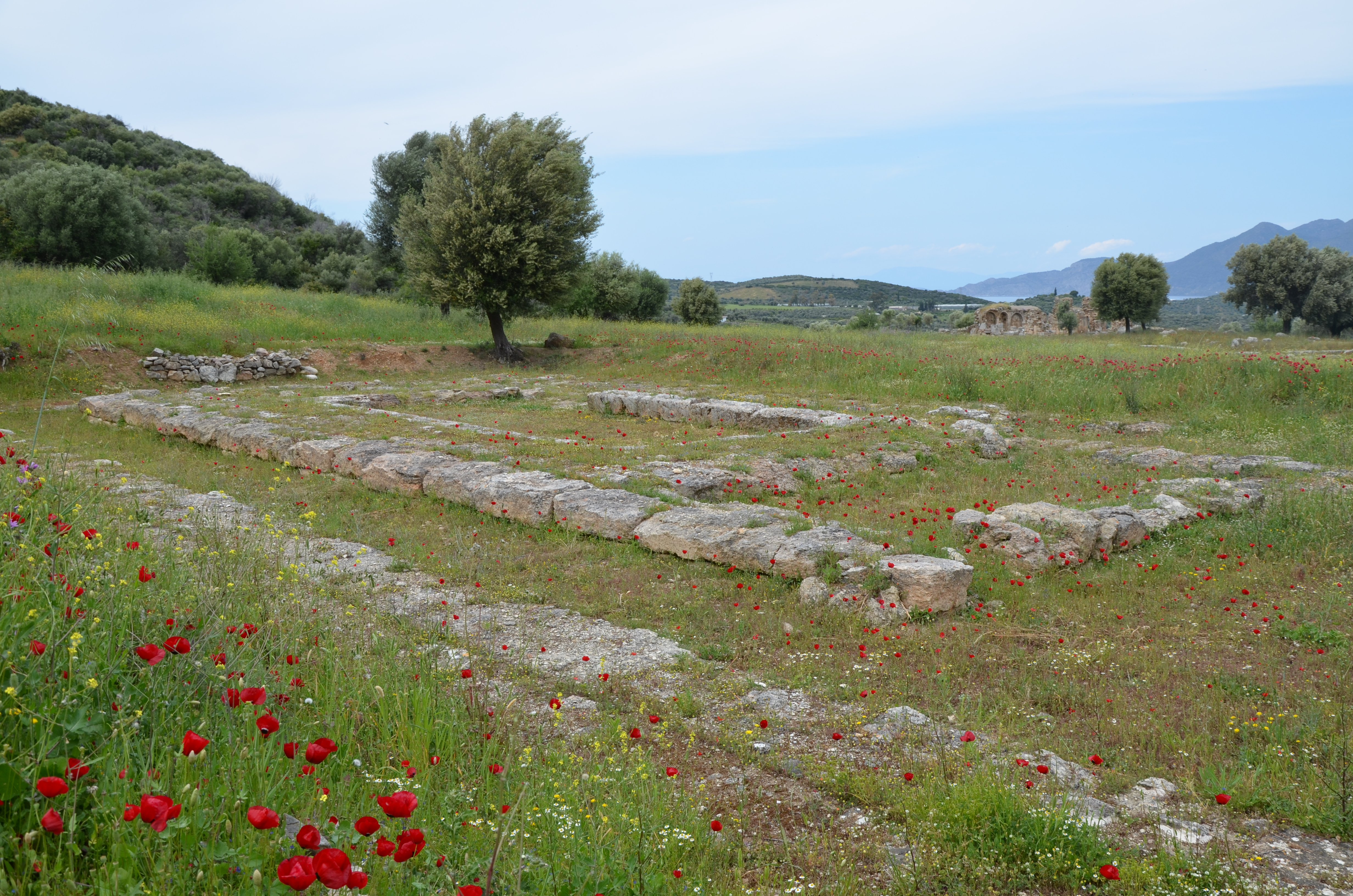 The ruins of the 4th century BC Temple of Hippolytus (son of Theseus) at Troezen, Argolid, Greece